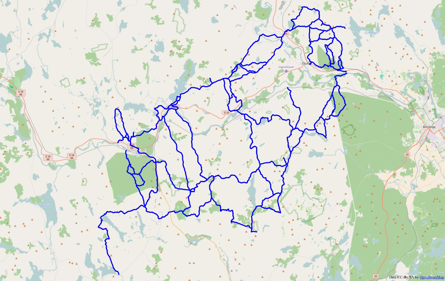 Hiking trails in Gagnef, Sweden.